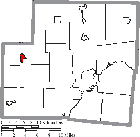 Map of the municipal and township boundaries of Shelby County, Ohio, United States, as of the 2000 census, with the location of the village of Fort Loramie highlighted. Township borders are shown only in unincorporated areas in order to differentiate incorporated and unincorporated areas more clearly.